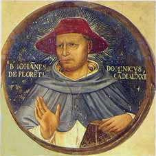 Portrait of Giovanni Dominici